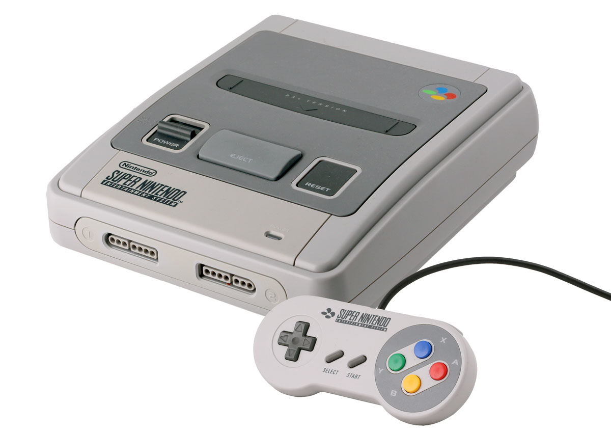 Nintendo SNES (Super Nintendo Entertaintment System) Console with controller